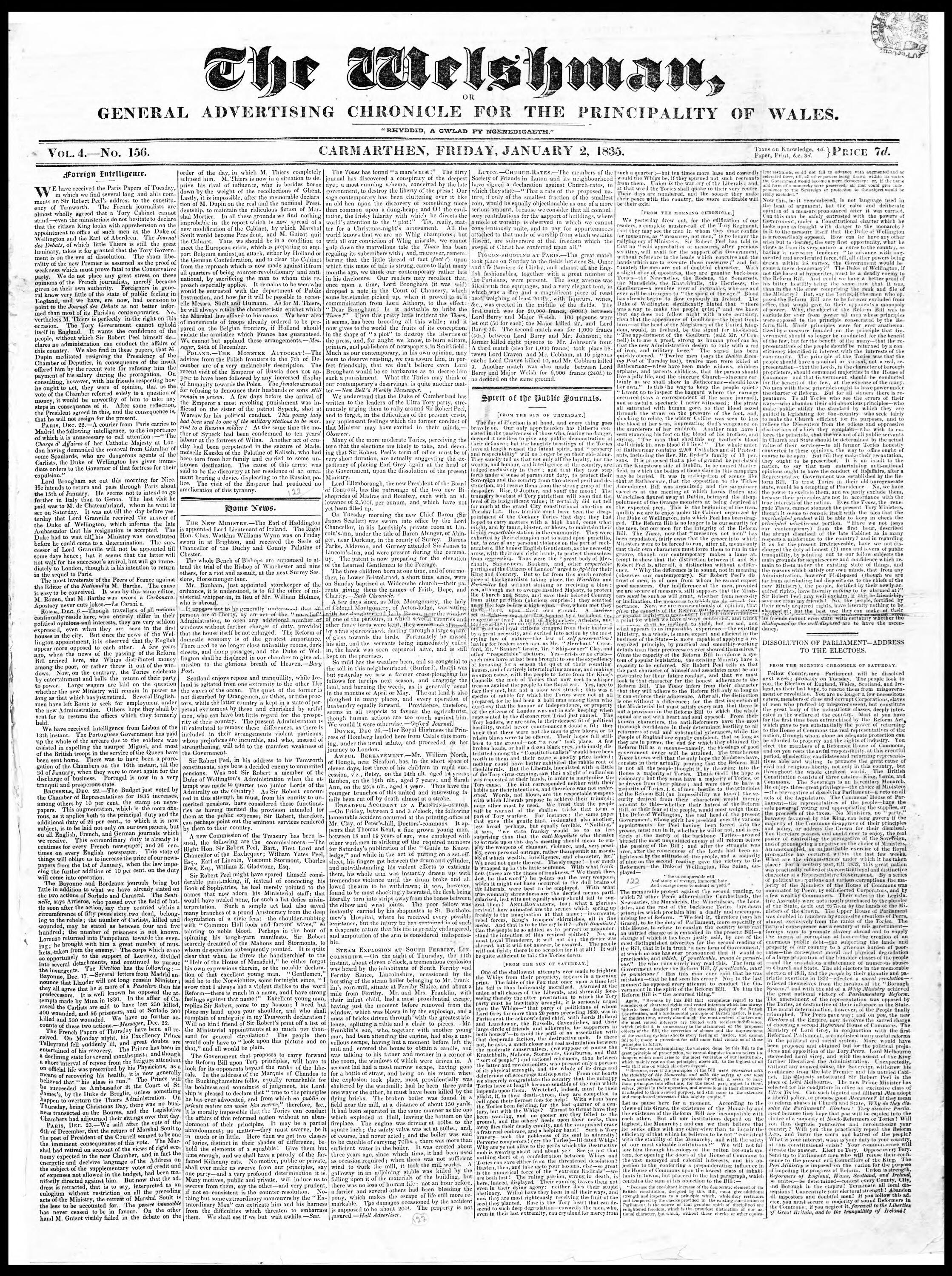 Front page of the earliest surviving copy of the Welsh newspaper The Welshman